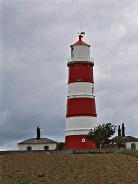 Happisburgh Lighthouse, Norfolk. Not long before this photograph was taken the lighthouse was painted by the "Challenge Anneka" television programme. Unfortunately, the wrong paint was used and as you can see it started to peel off fairly quickly. I note it looks better now. Happisburgh Lighthouse is the oldest working light in East Anglia, and the only independently run lighthouse in Great Britain. Built in 1790, originally one of a pair - the tower is 85ft tall and the lantern is 134ft above sea level. The 'low light' which was discontinued in 1883 was 20ft lower and the pair formed leading lights marking safe passage around the southern end of the treacherous Haisborough Sands. Today the lighthouse is painted white with three red bands, and has a light characteristic of Fl (3) W 30s (3 white flashes, repeated every 30secs) with a range of 18 miles. Saved as a working light by the local community, it is maintained and operated entirely by voluntary contributions.